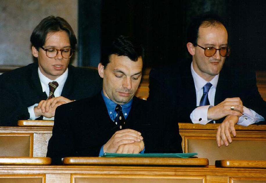 Viktor Orban in the Hungarian Parliament.